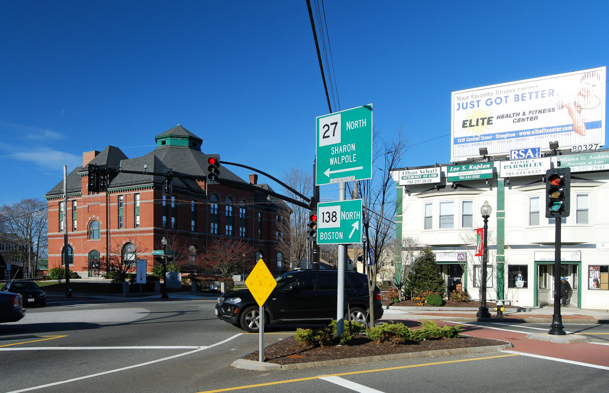 Stoughton, Massachusetts town center